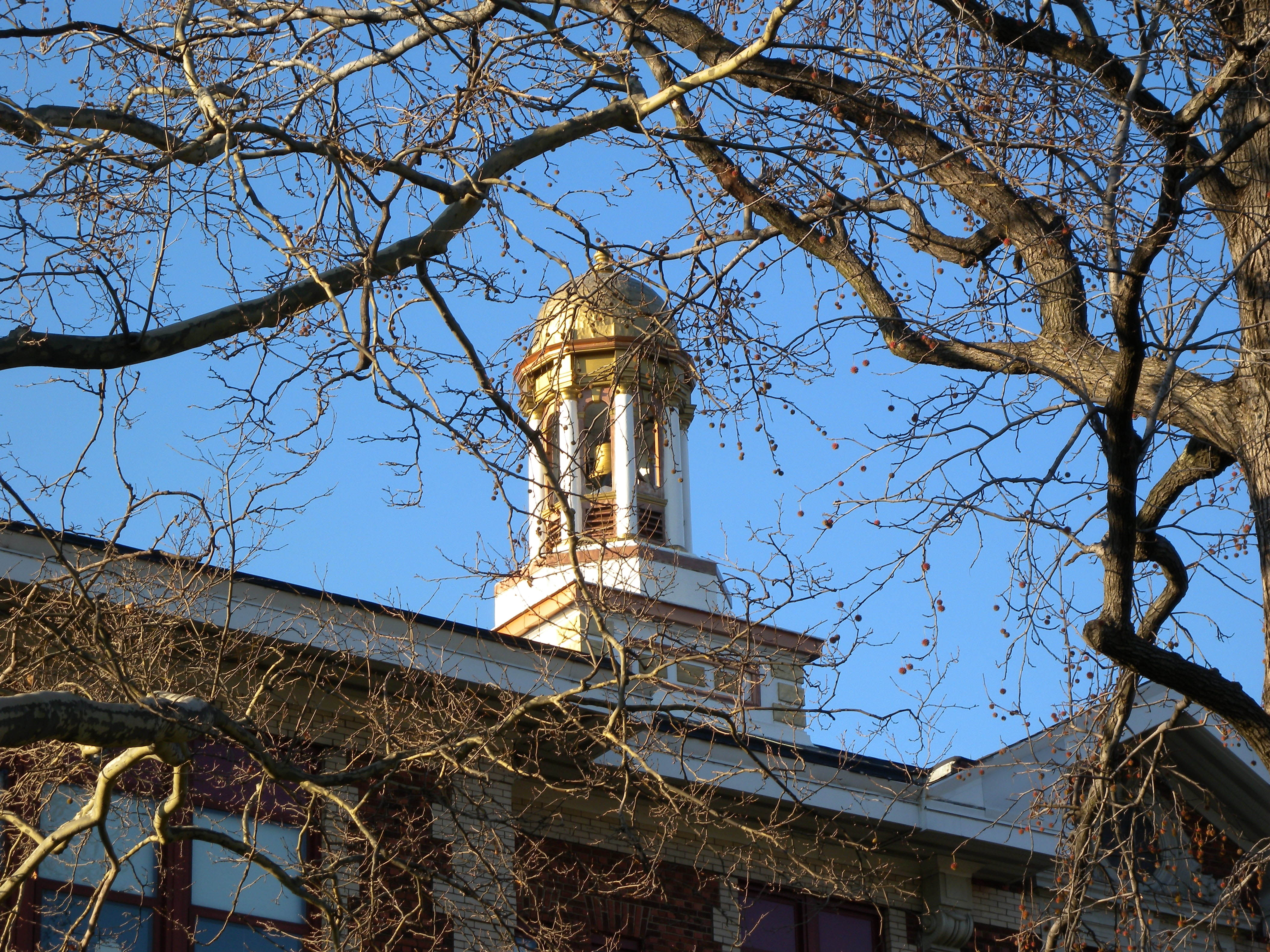 Looking northwest at School #3 cupola on a sunny early afternoon. EXIF location is off by a few miles due to photographer's error.